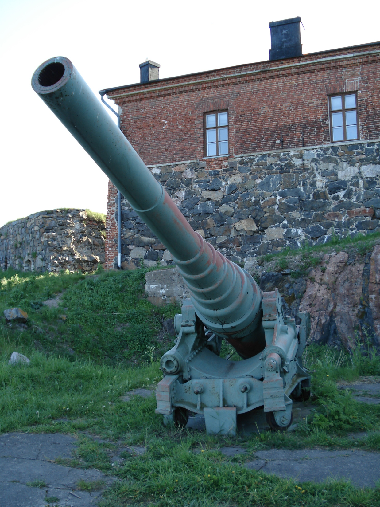 Russian 152 mm/35 gun M1877 gun (152мм/35 орудие обр. 1877 г.), displayed in Suomenlinna fortress, Helsinki. This gun was initially mounted on warships (most likely the Imperator Aleksandr II class), then placed in role of coastal artillery. [1] [2] The stamp on the breech indicates the gun was produced in 1889. Photo taken on June 10, 2006. Source: Photo by me, User:Balcer.